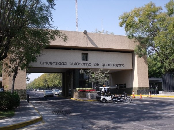 universidad autonoma de guadalajara - main entrance and security station.